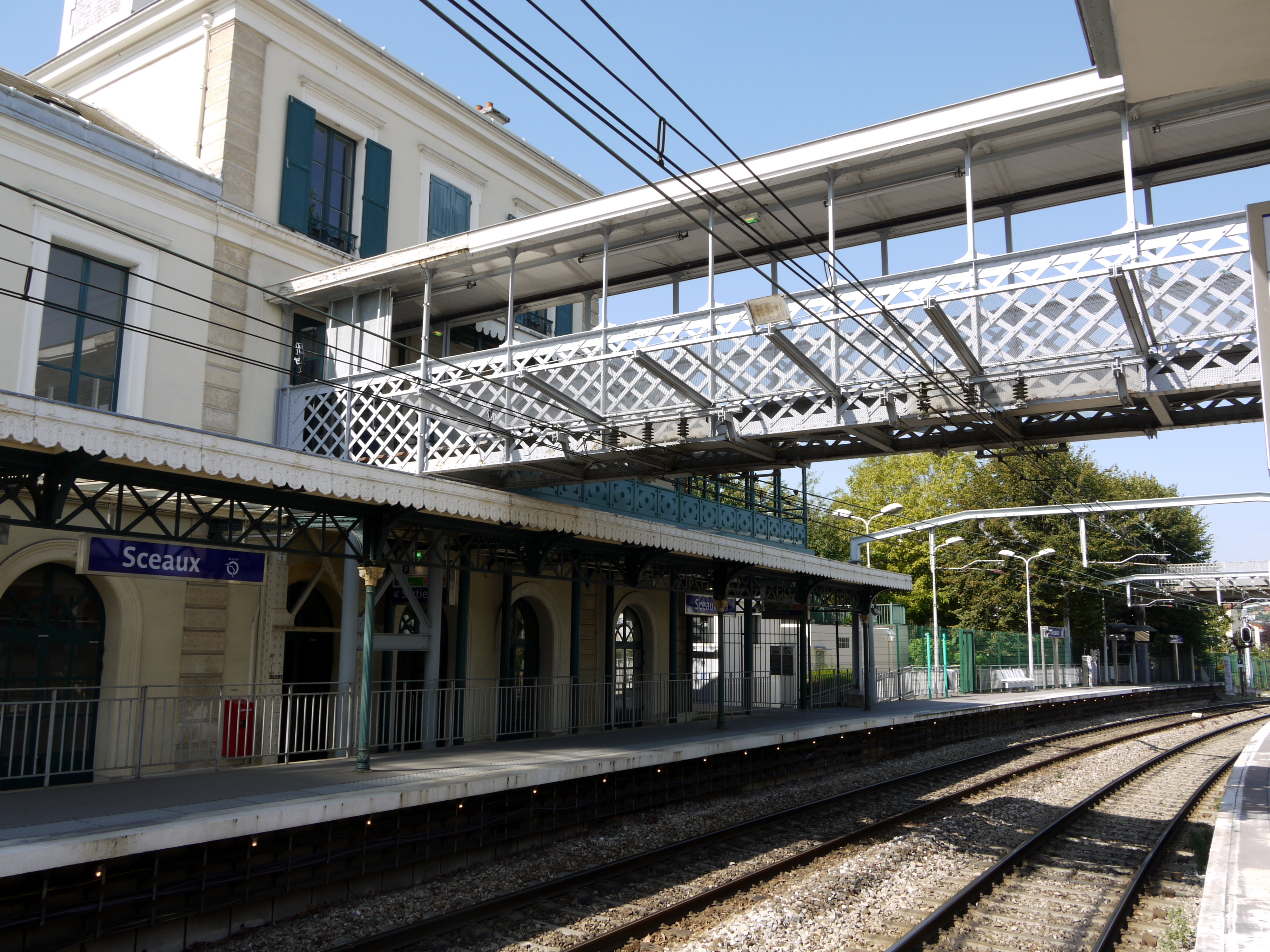 Gare de Sceaux, RER B, Sceaux, suburb of Paris